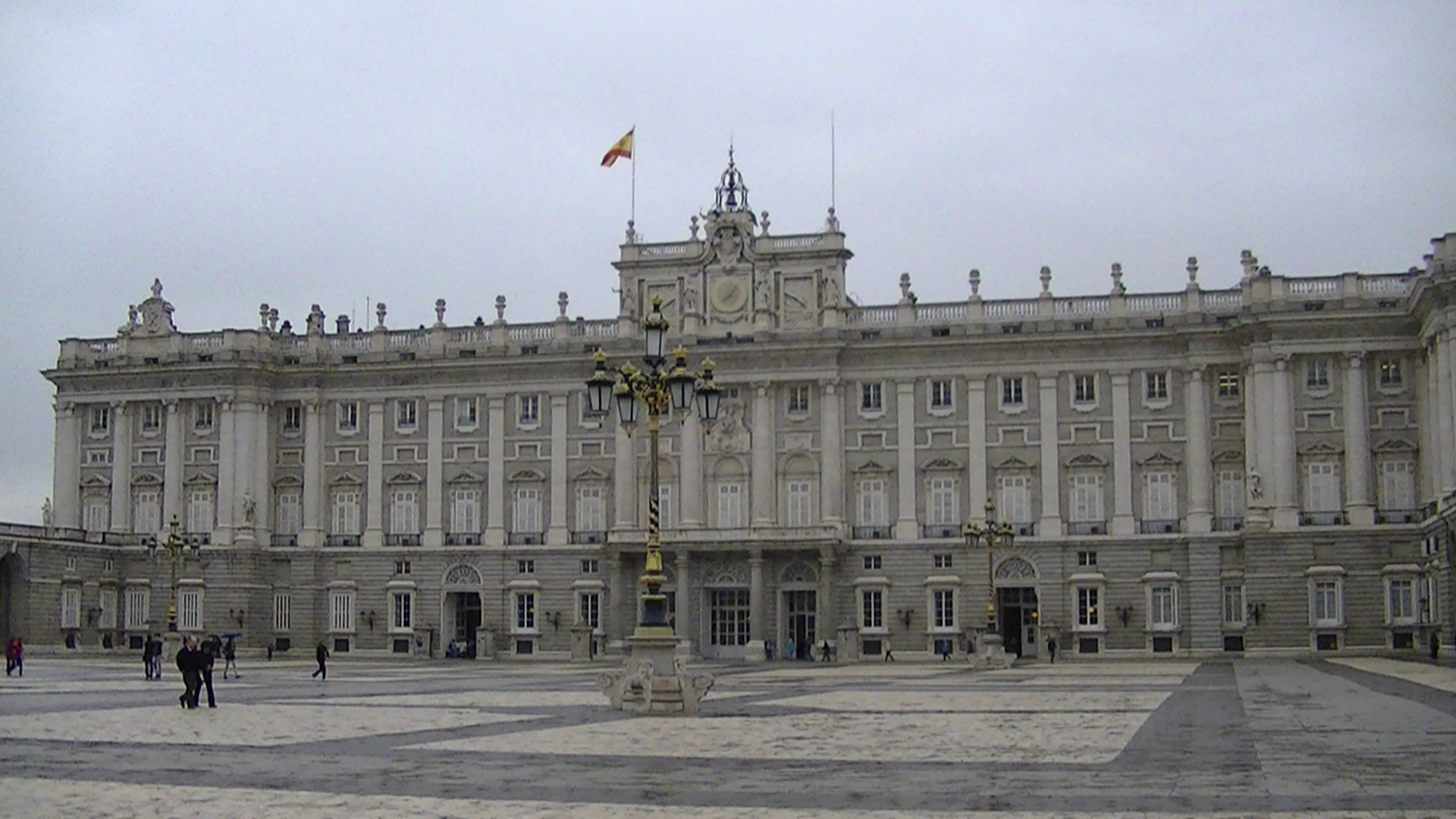 Palacio Real, Madrid